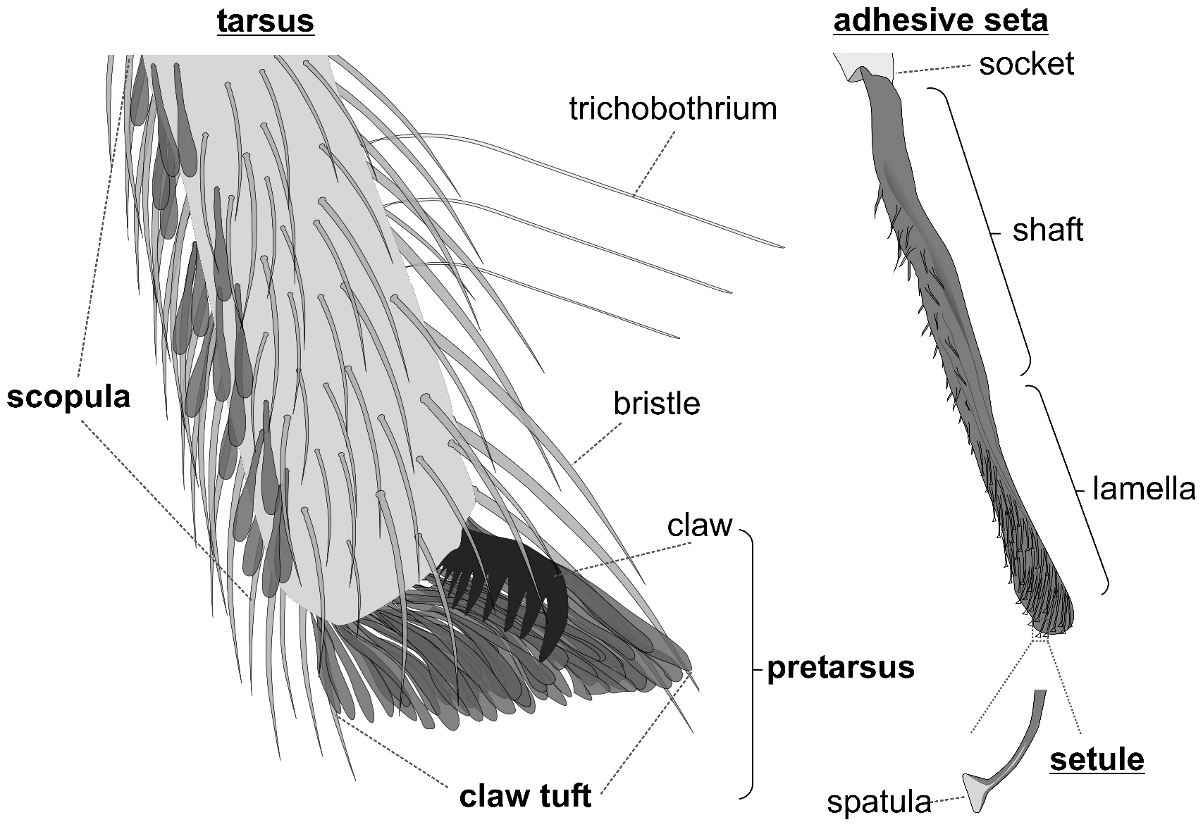 The adhesive setae are coloured in dark grey. In a living specimen they usually appear dark, with the lamellate part being translucent and with an iridescent lustre on the adhesive side.